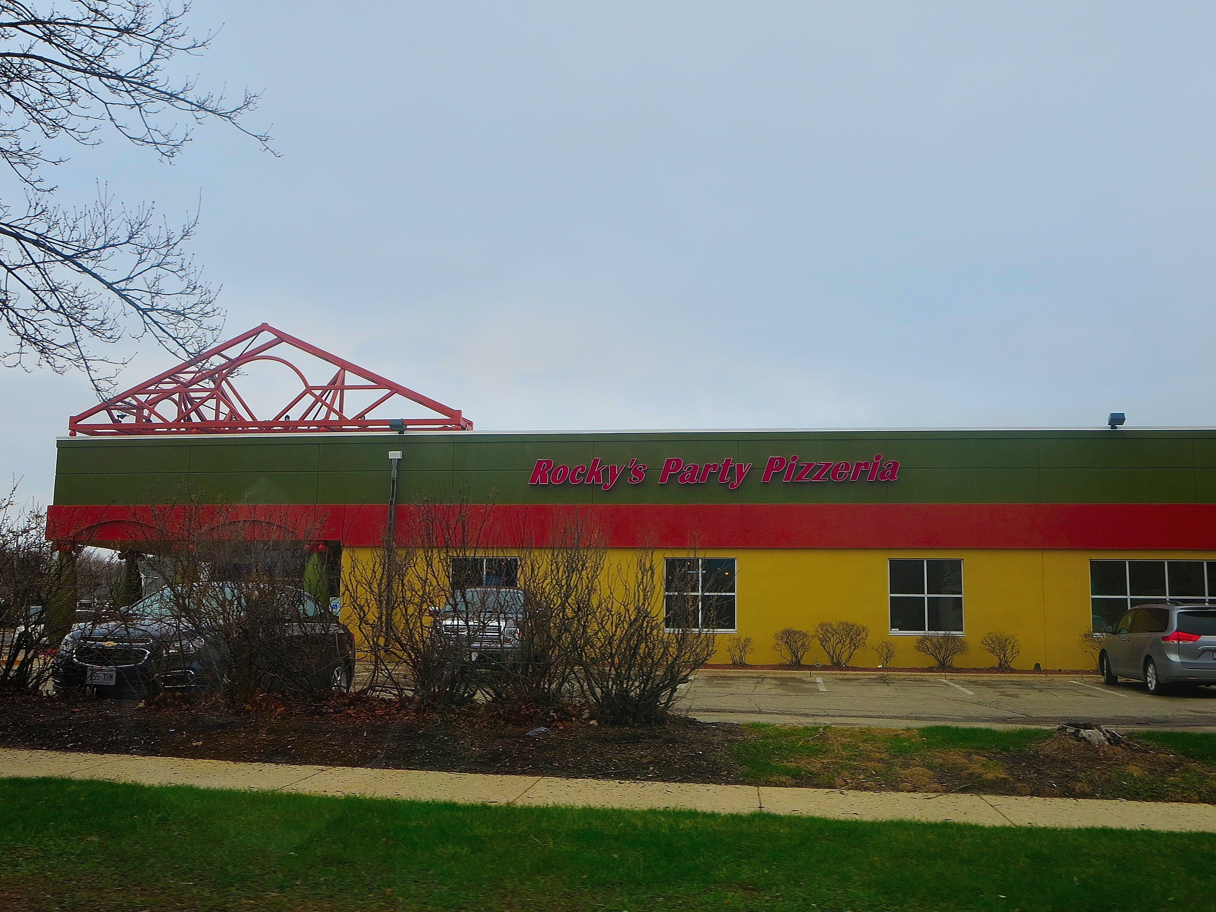 Rocky Rococo's Party Pizzeria East